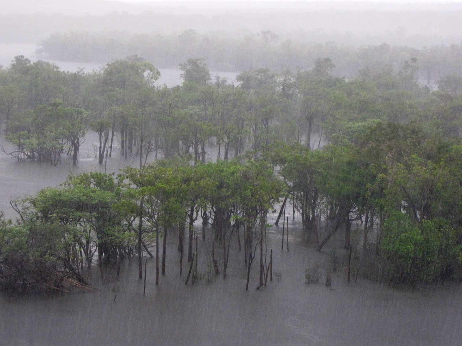 Rio Urubu, Amazonas, Brazil. 10 September 2010.